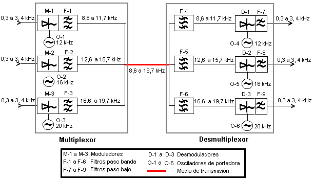 Simplified circuit to explain the Frequency-division multiplexing process. NOTE: This image, created by PACO, was before uploaded to Wikipedia in Spanish, but I believe that now it is better in Commons.